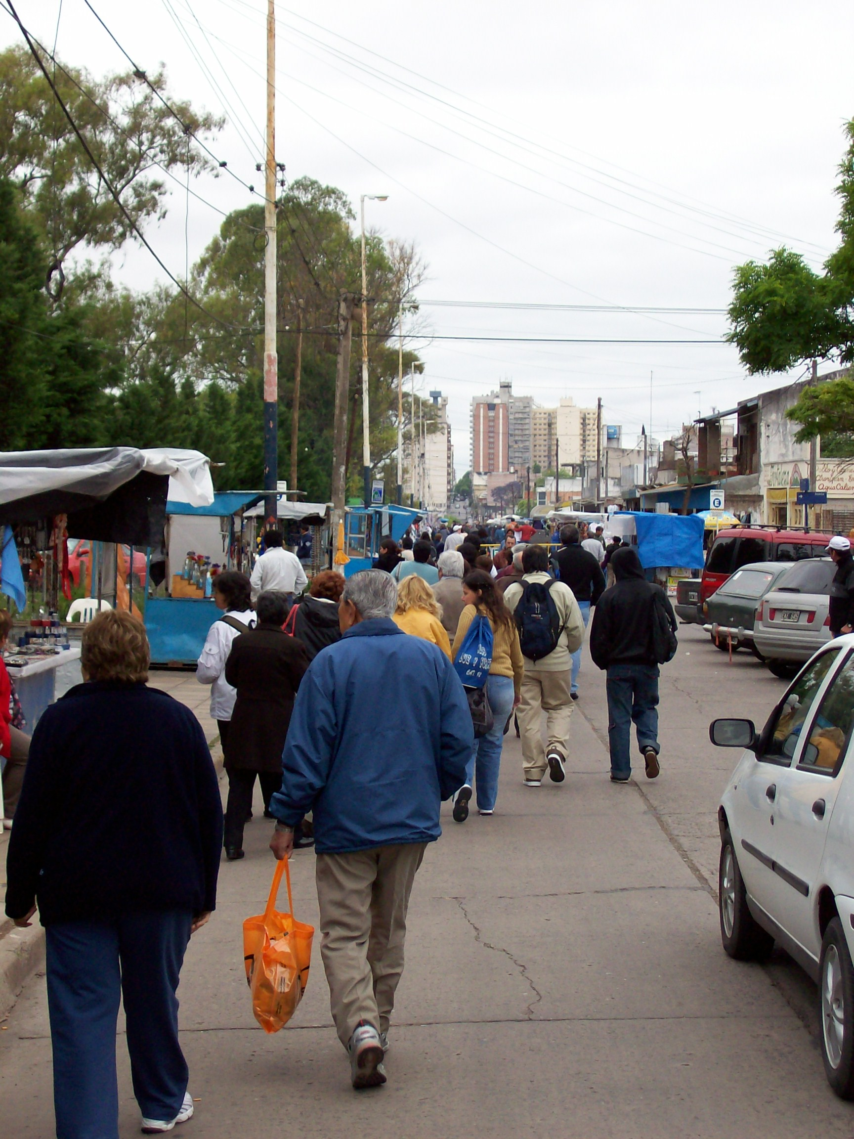 Pilgrins walking towards the Sanctuary of Virgin Mary in San Nicolás de los Arroyos, Buenos Aires, Argentina.